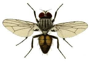 Fannia canicularis Linnaeus (Diptera: Fanniidae)